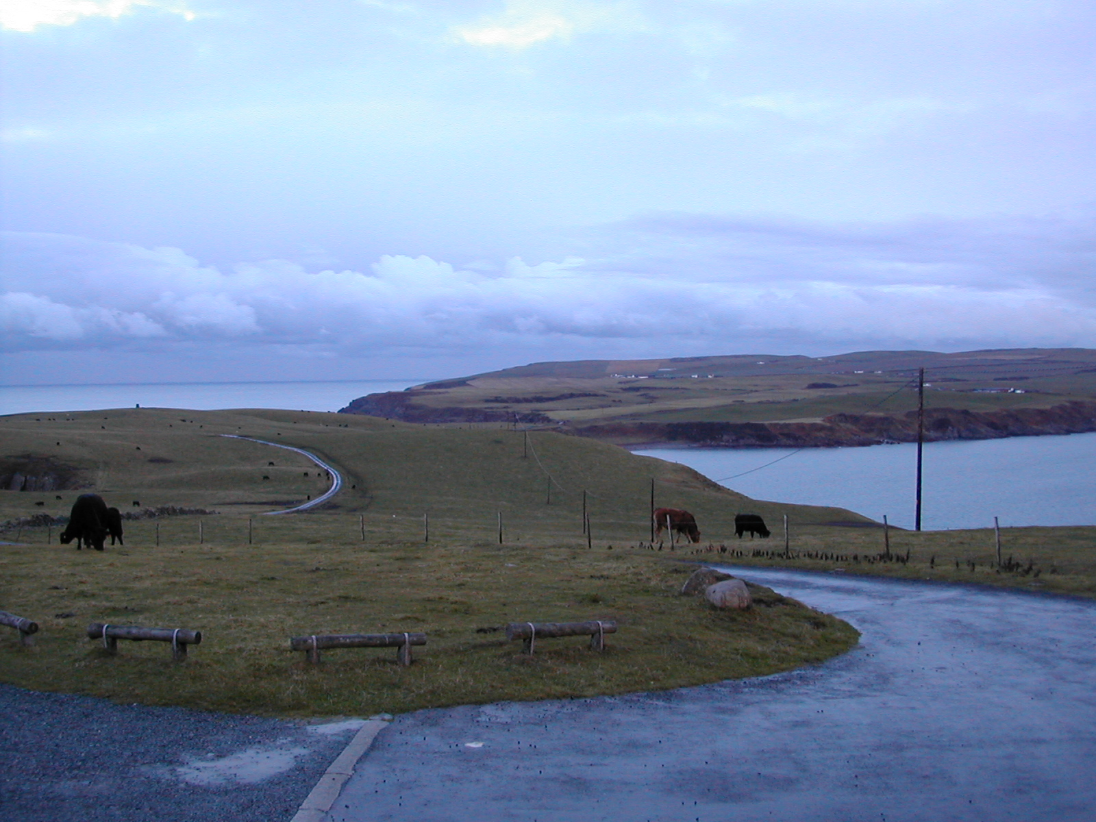 Nom du fichier : DSCN2632.JPG Taille du fichier : 754.0 Ko (772109 octets) Date : 2003/10/29 18:28:43 Taille de l'image : 1600 x 1200 pixels Résolution : 300 x 300 ppp Profondeur en bits : 8 bits/canal Attribut de protection : Désactivé Attribut Masqué : Désactivé ID de l'appareil : N/A Appareil : E775 Mode de qualité : FINE Mode de mesure : Multizones Mode d'exposition : Programme Auto Speed Light : Non Distance Focale : 5.8 mm Vitesse d'obturation : 1/64 seconde Ouverture : F2.8 Correction d'exposition : 0 IL Balance des blancs : Auto Objectif : Intégré Mode Synchro-Flash : Premier Rideau Différence d'exposition : N/A Programme Décalable : N/A Sensibilité : Auto Renforcement de la netteté : Auto Type d'image : Couleur Mode Couleur : N/A Saturation : N/A Contrôle Saturation : N/A Compensation des tons : Normal Latitude (GPS) : N/A Longitude (GPS) : N/A Altitude (GPS) : N/A